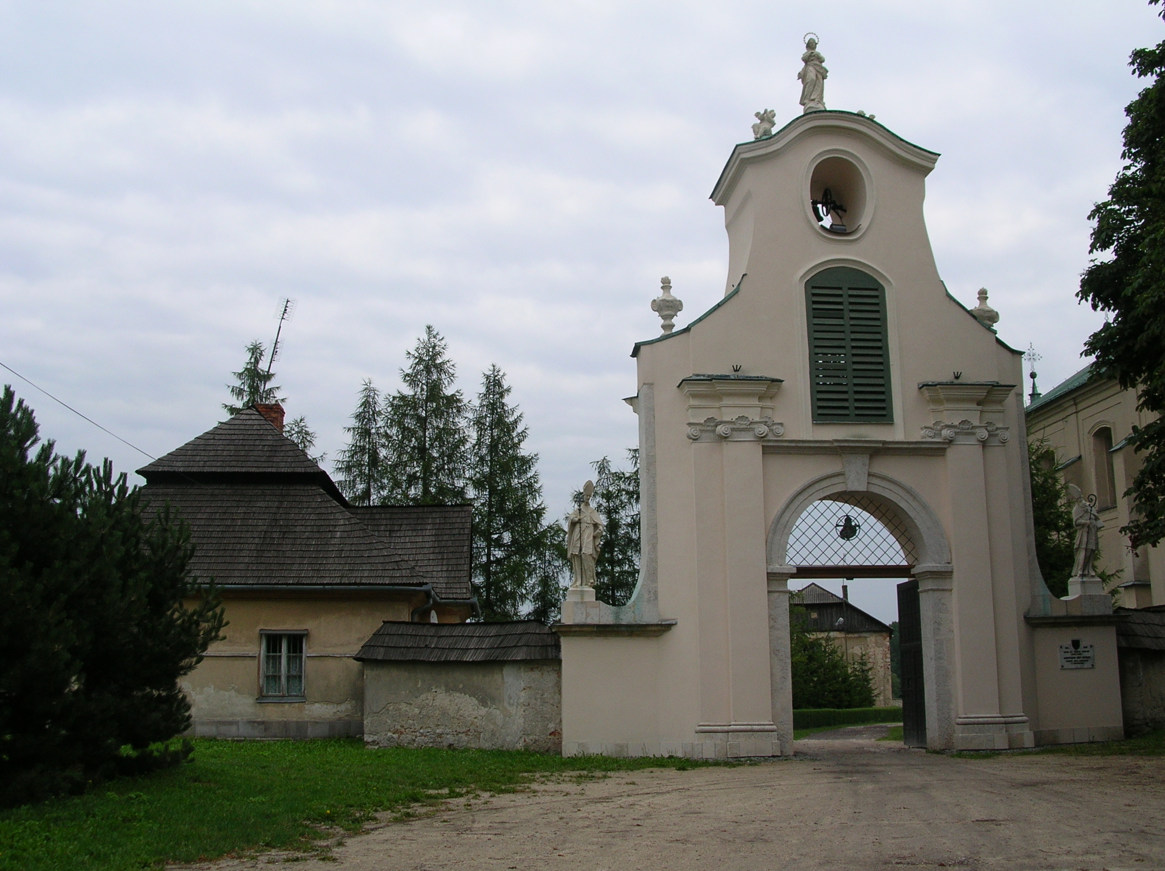 Monastery at Imbramowice (gate)